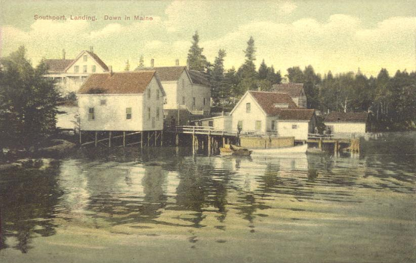 The landing at Southport, Maine